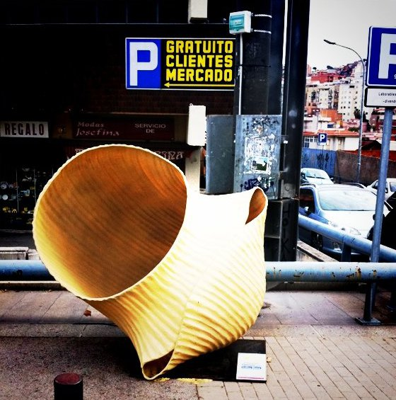 A Christmas light with the shape of a huge "Galet" pasta type, located in the market hall "Mercat Vall d'Hebron", in Barcelona (december 2010)